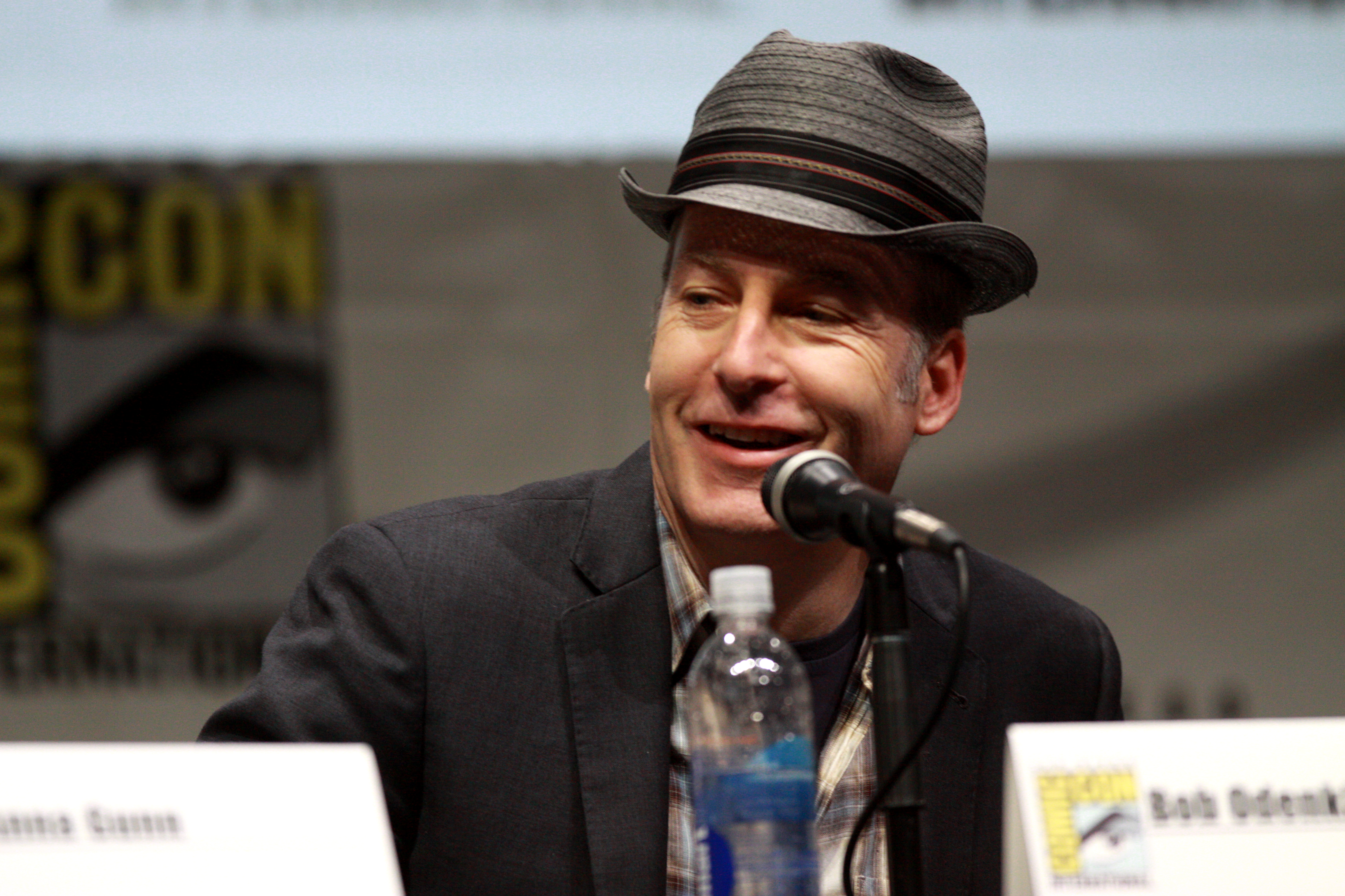 Bob Odenkirk speaking at the 2013 San Diego Comic Con International, for "Breaking Bad", at the San Diego Convention Center in San Diego, California.